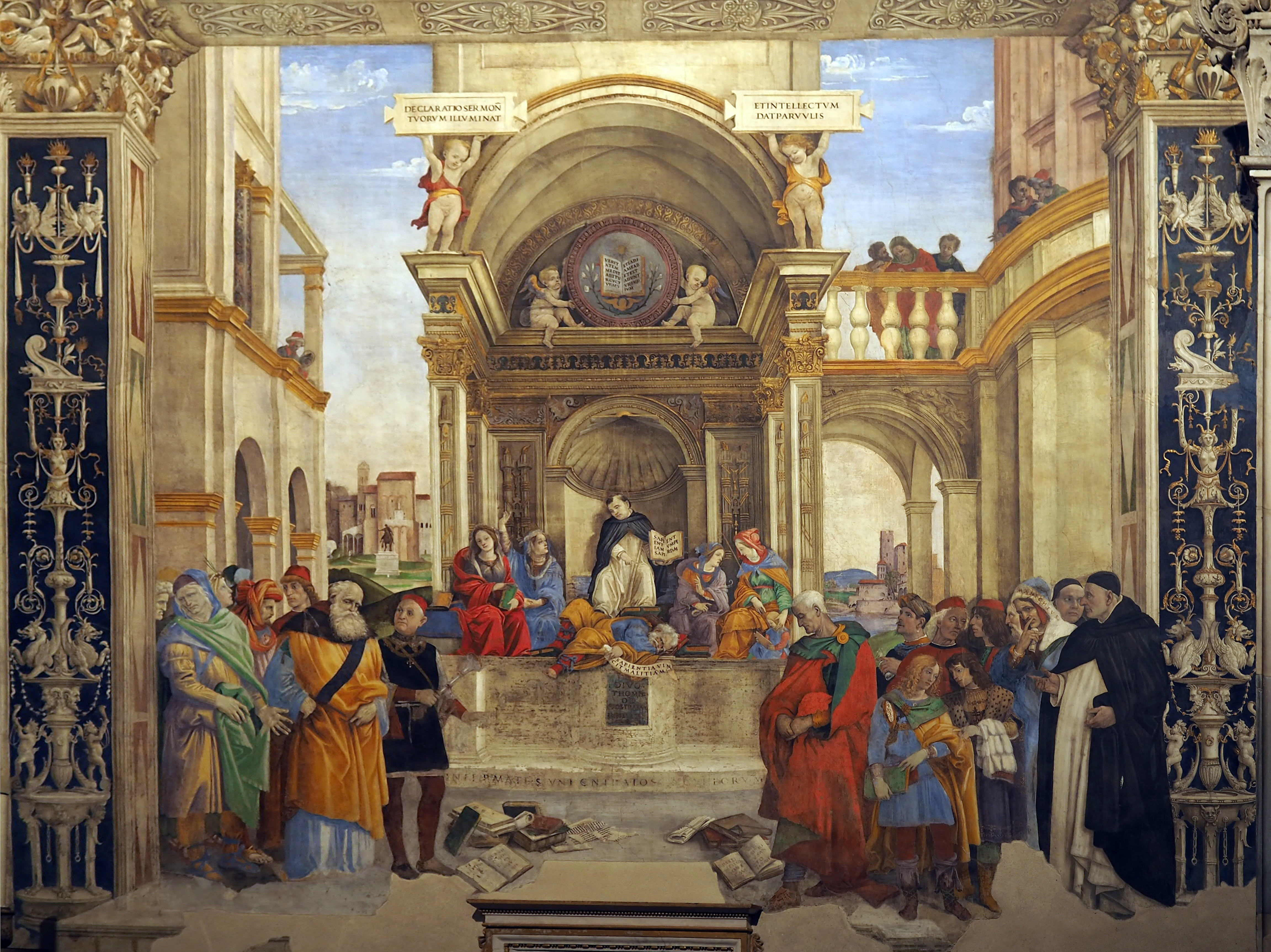 Santa Maria sopra Minerva (Rome); Carafa Chapel; Triumph of St. Thomas